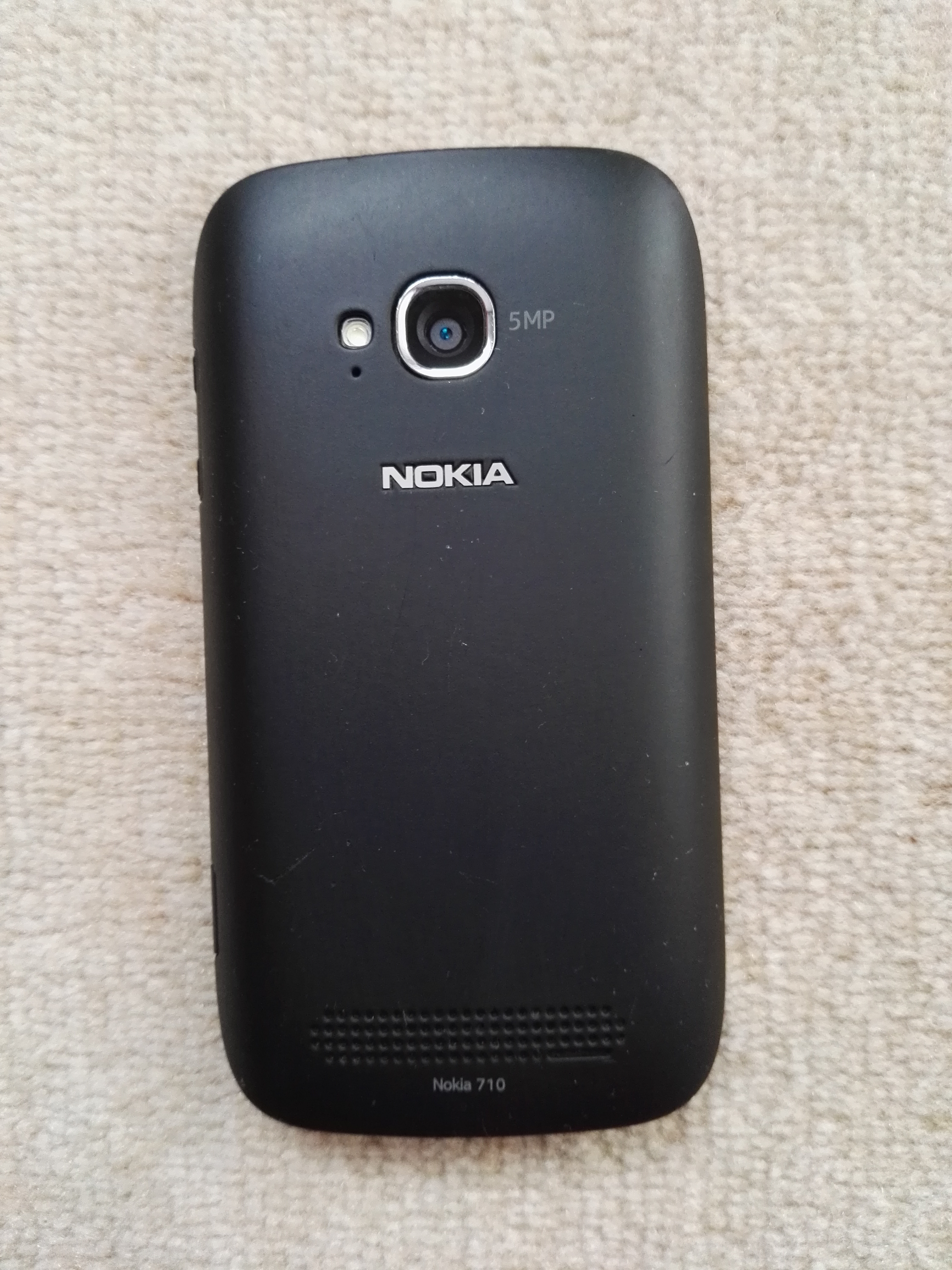 Back view of Nokia Lumia 710